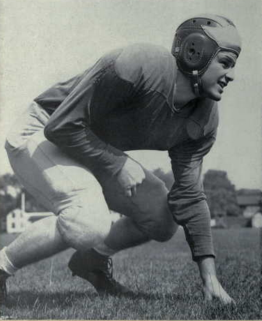 Photograph of Dominic Tomasi